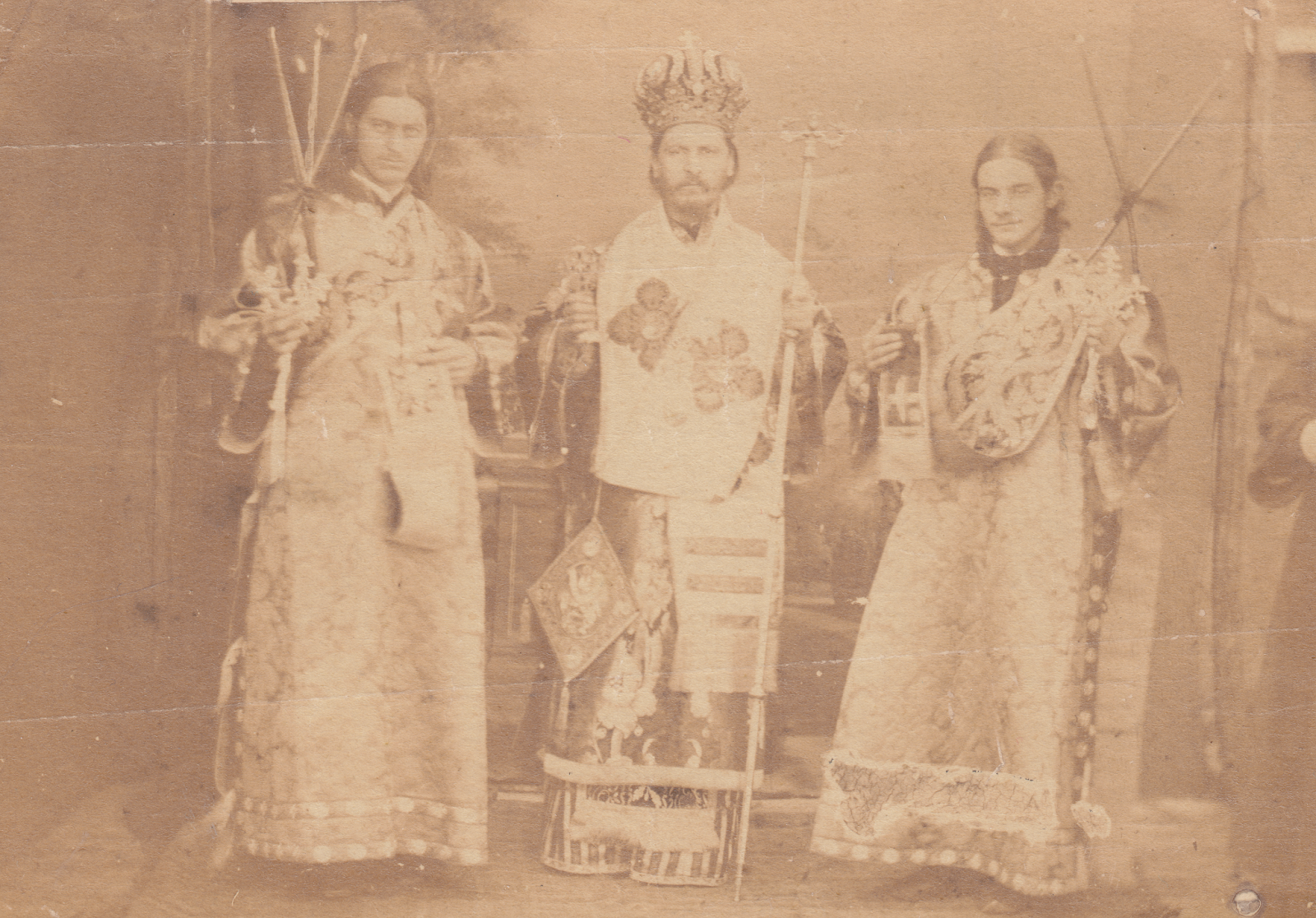 Dositheus of Samokov and two priests